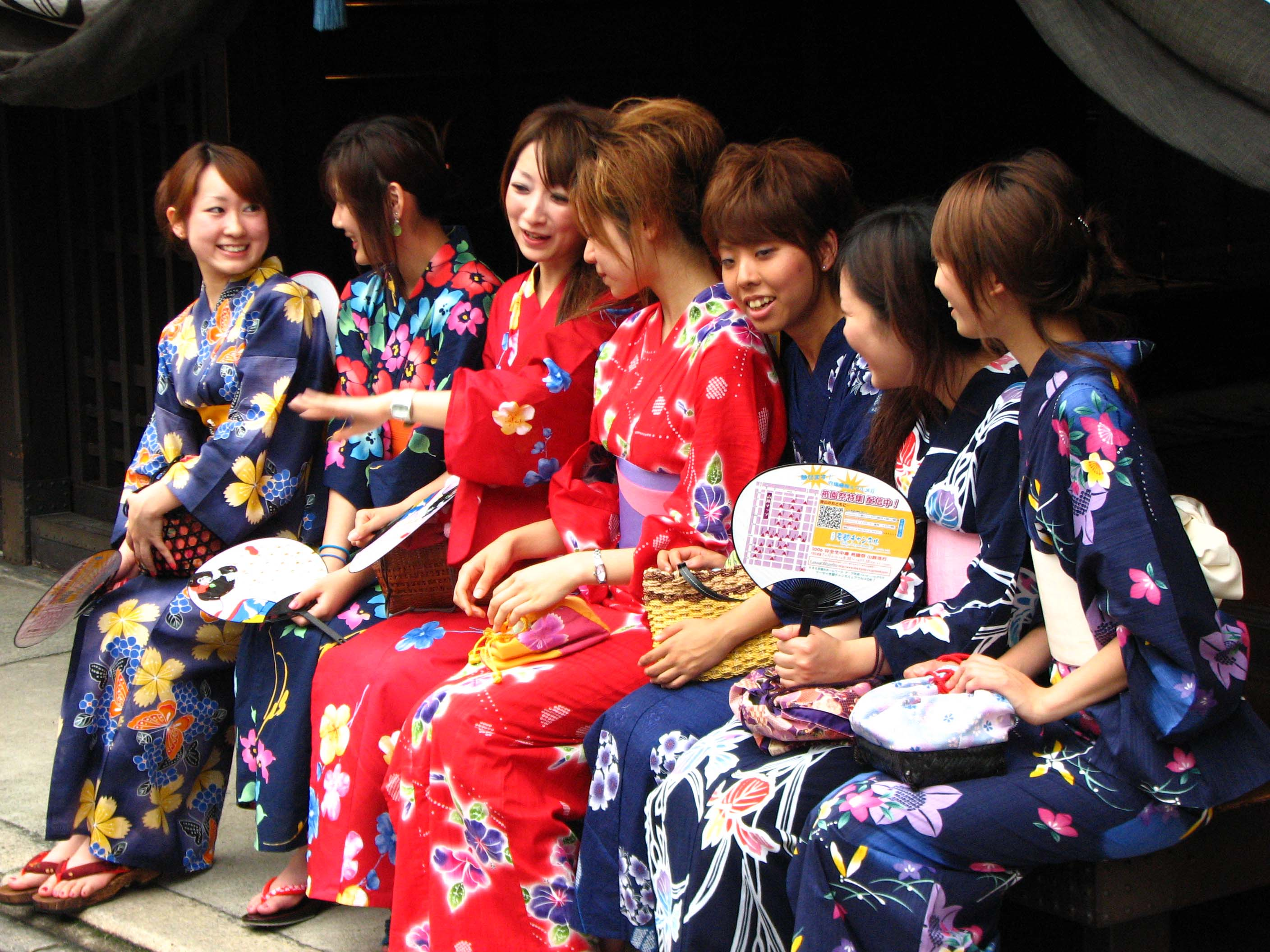 These girls were very popular for some reason. I mean, I know why, but I'm not sure what the occasion was....